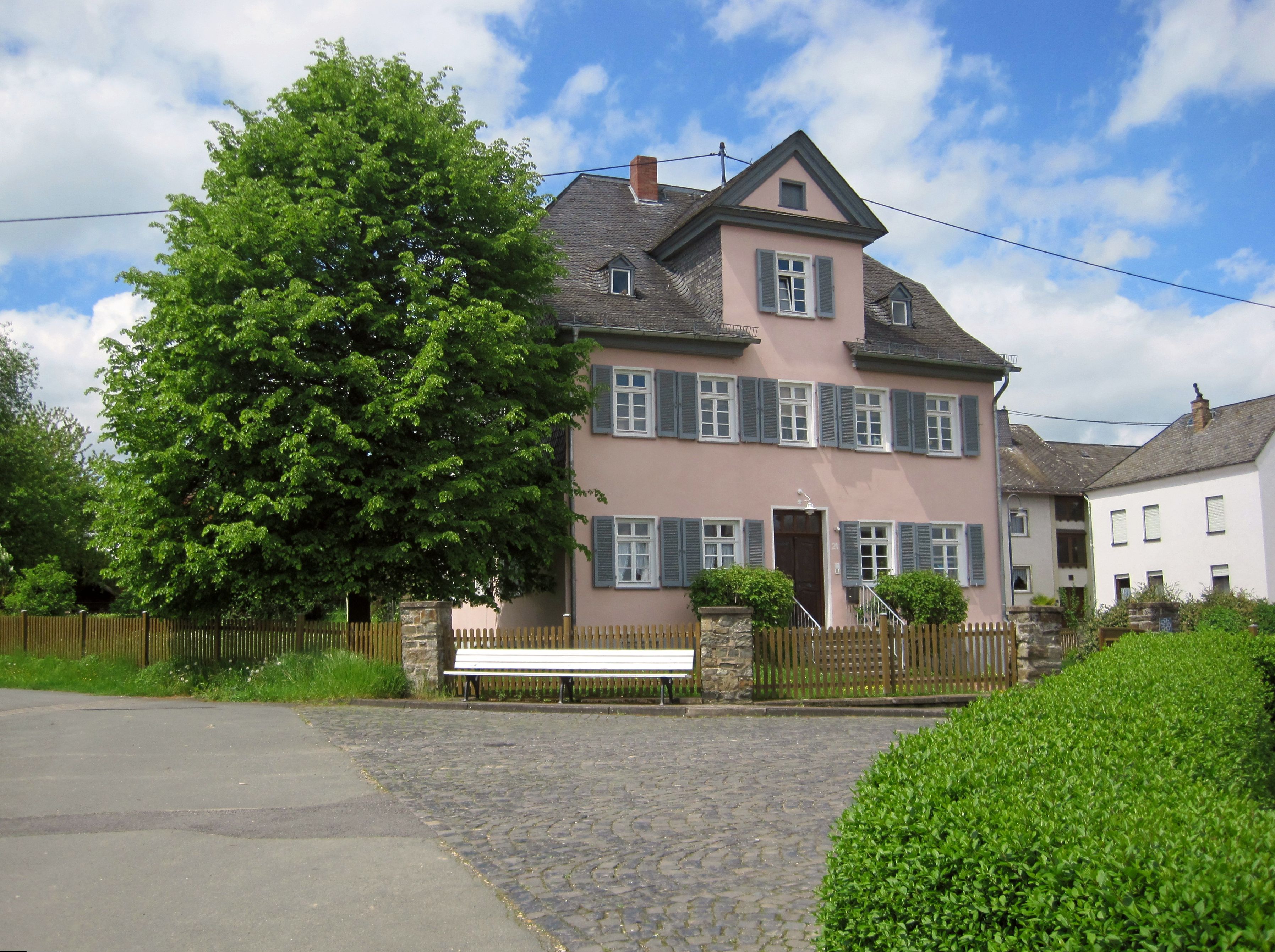 Evangelical rectory, Nochern, Rhineland-Palatinate, Germany